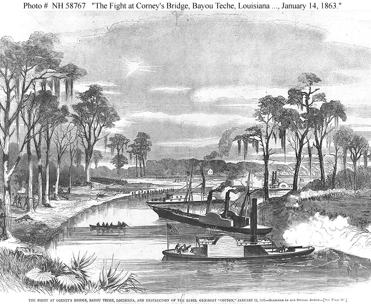 "The Fight at Corney's Bridge, Bayou Teche, Louisiana, and Destruction of the Rebel Gun-boat 'Cotton,', January 14, 1863." Line engraving published in "Harper's Weekly", 1863, showing the Confederate gunboat J.A. Cotton engaging Federal gunboats, as Confederate troops fire from the shore. U.S. Navy ships in this engagement were Kinsman, Estrella, Diana and Calhoun.